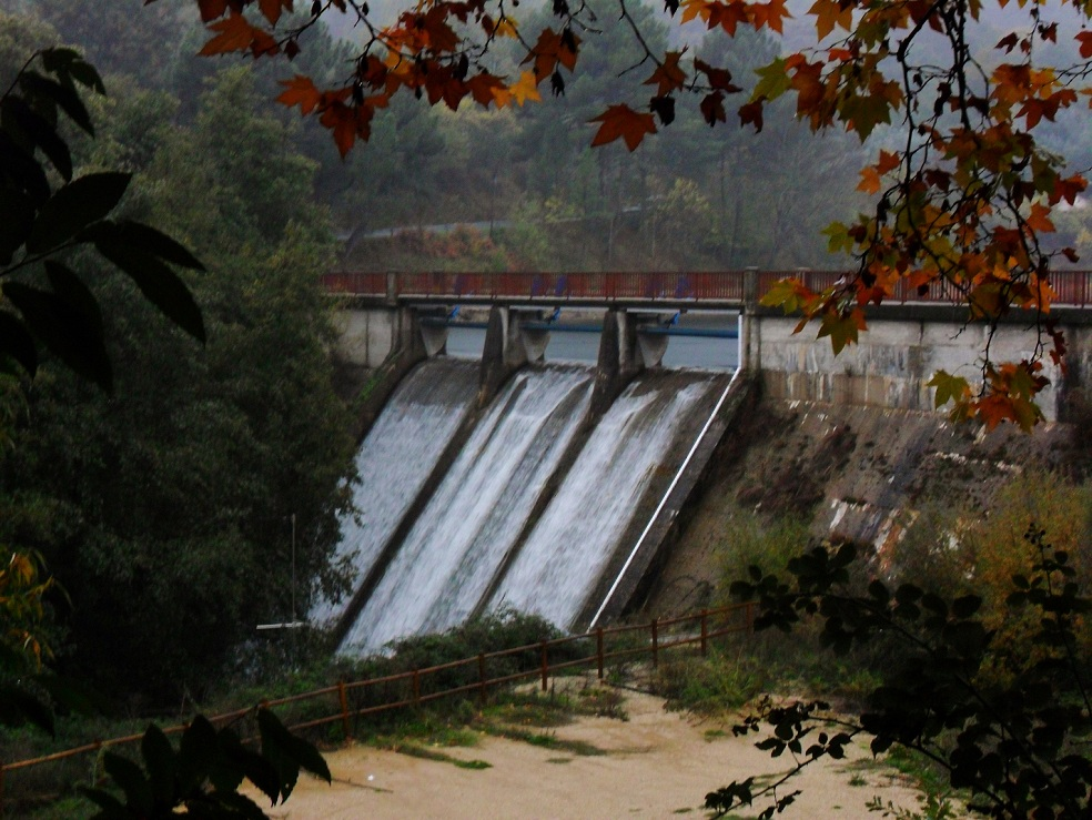 Arenas de San Pedro dam.